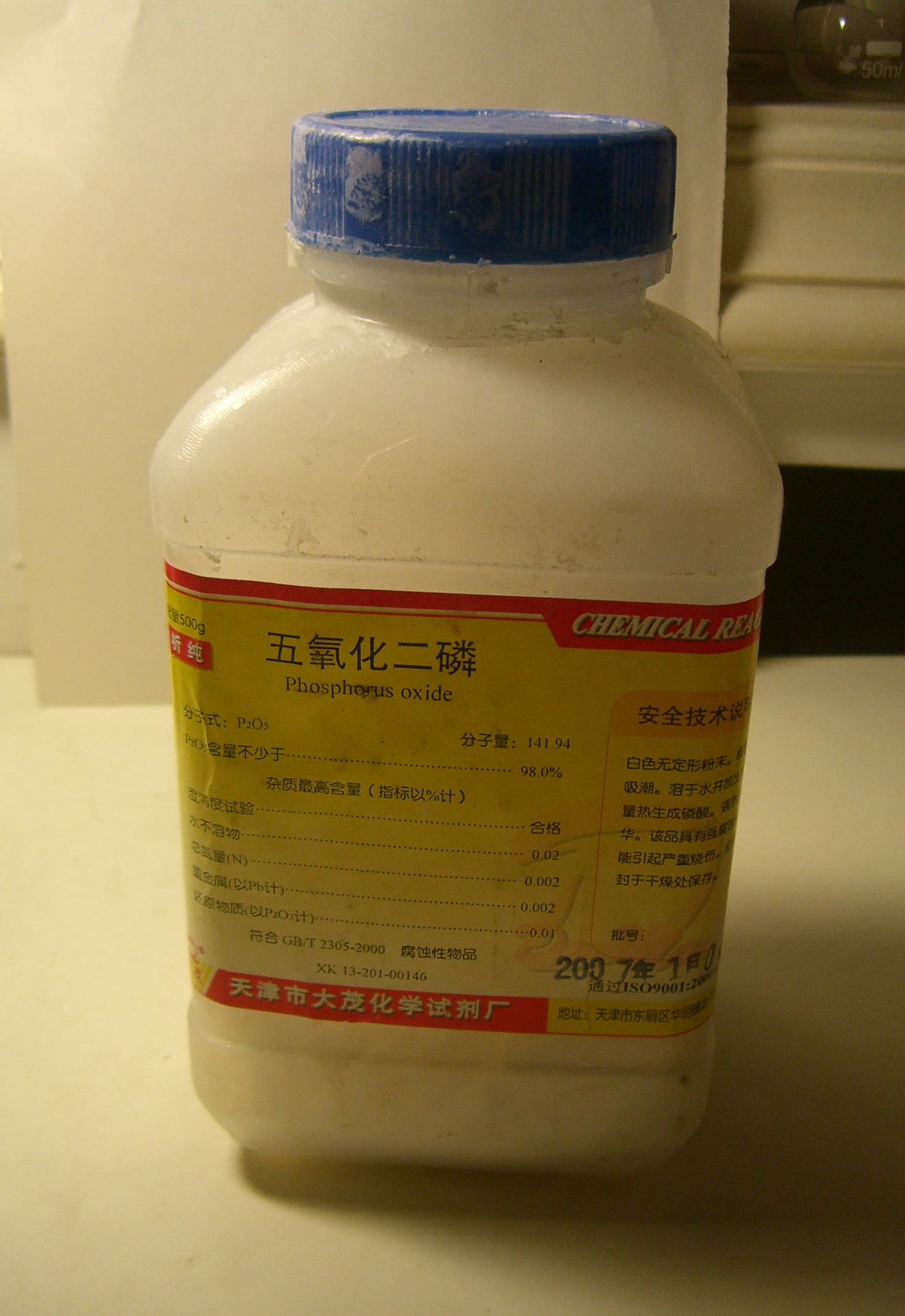 Phosphorus pentoxide, wax-sealed